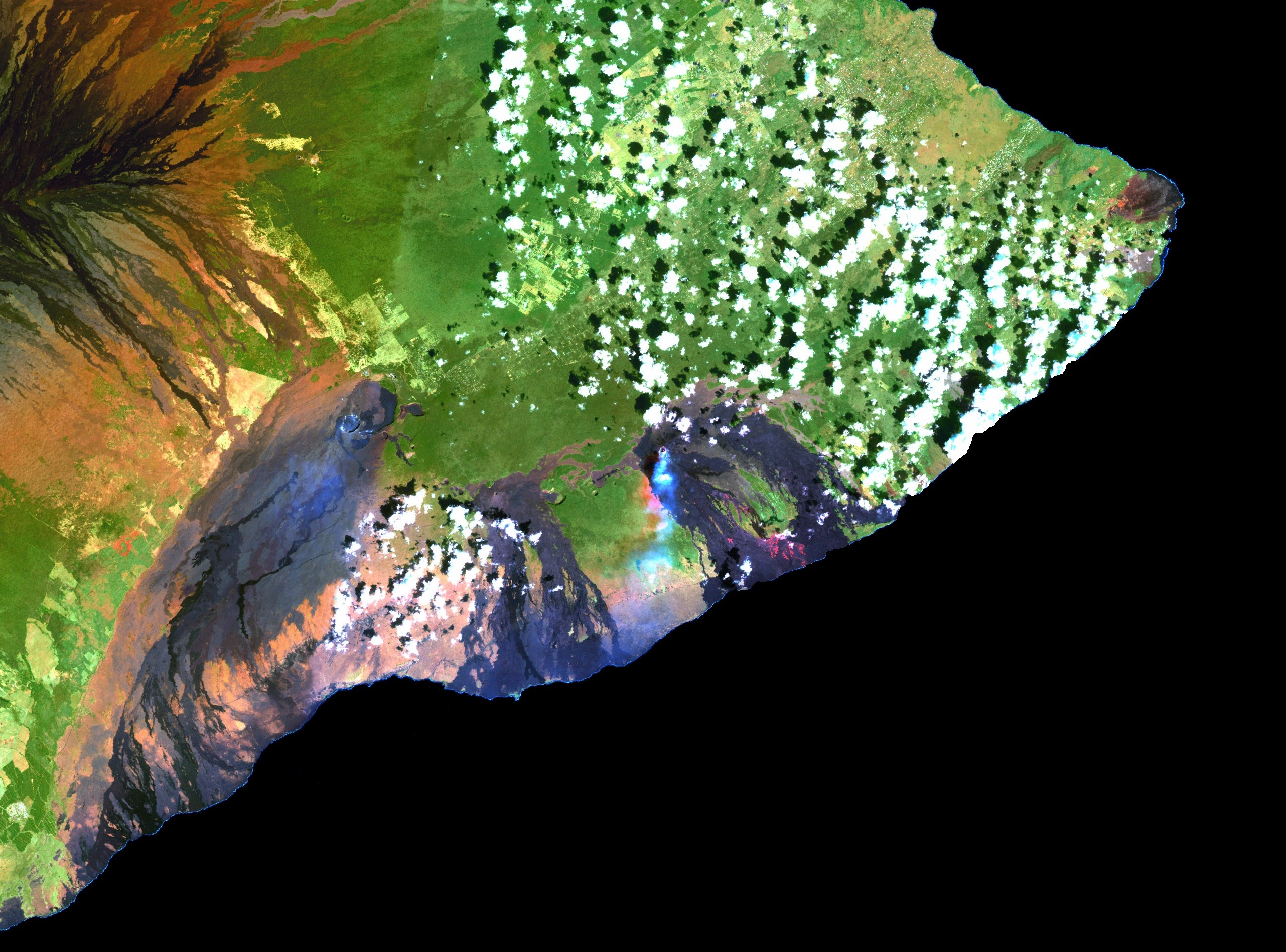 This simulated true-color image of the Kilauea was derived from data gathered by the Enhanced Thematic Mapper plus (ETM+) on the Landsat 7 satellite between 1999 and 2001.